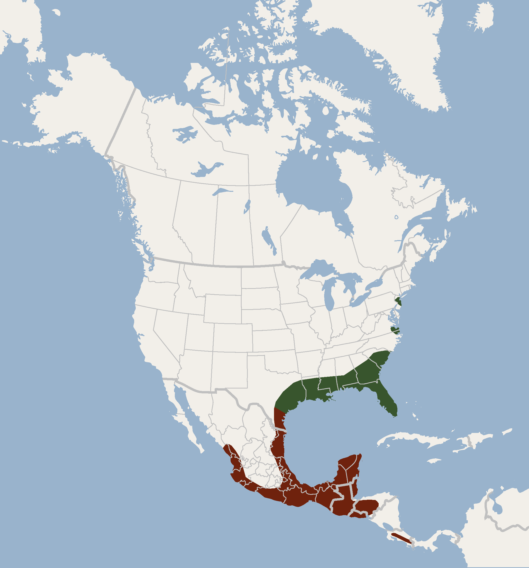 Geographical distribution of Lasiurus intermedius according to Reid, 2009 and Webster & al., 1980